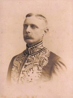 Sir William Edward Maxwell